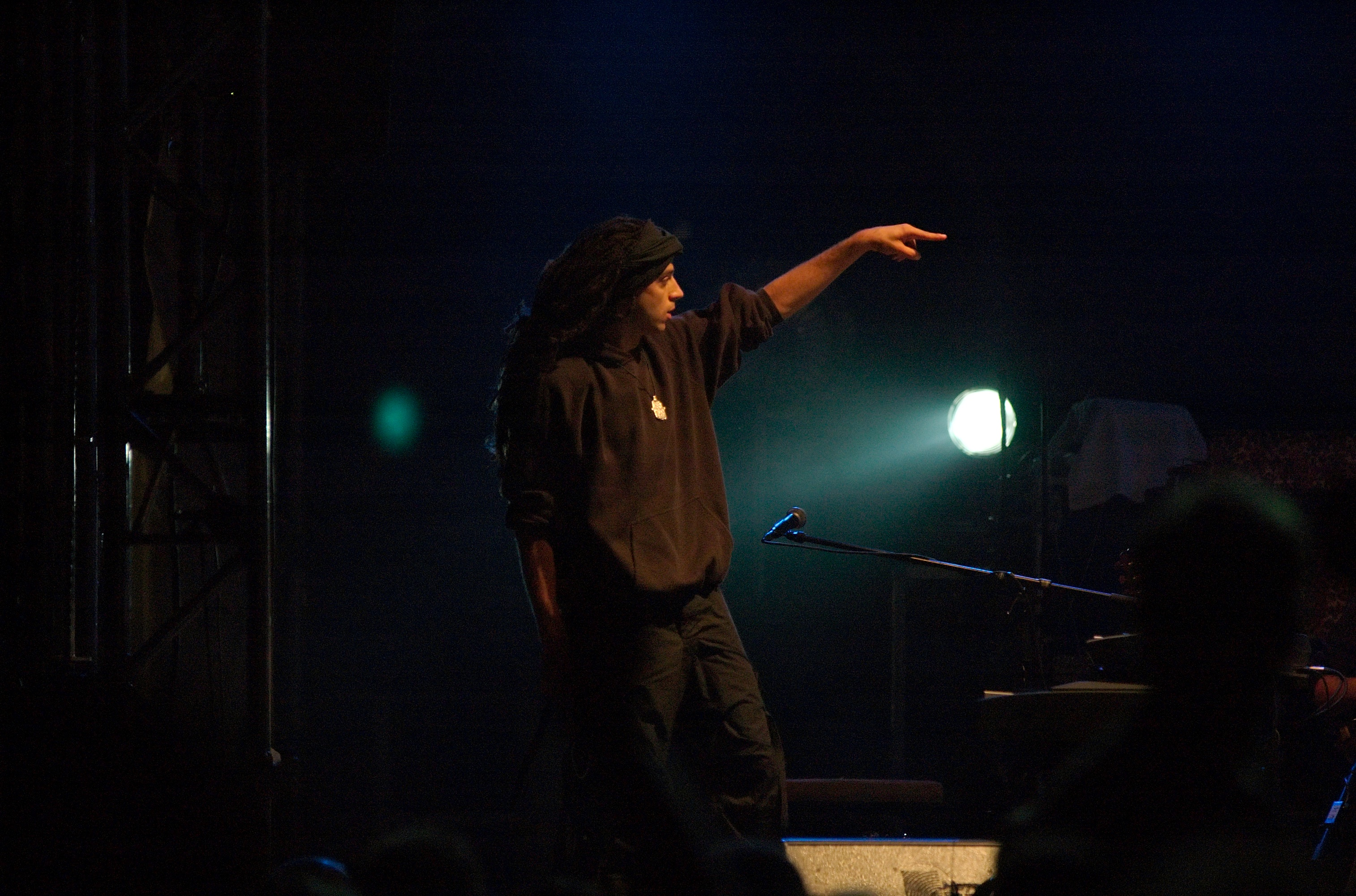 Idan Raichel on TFF.Rudolstadt 2007